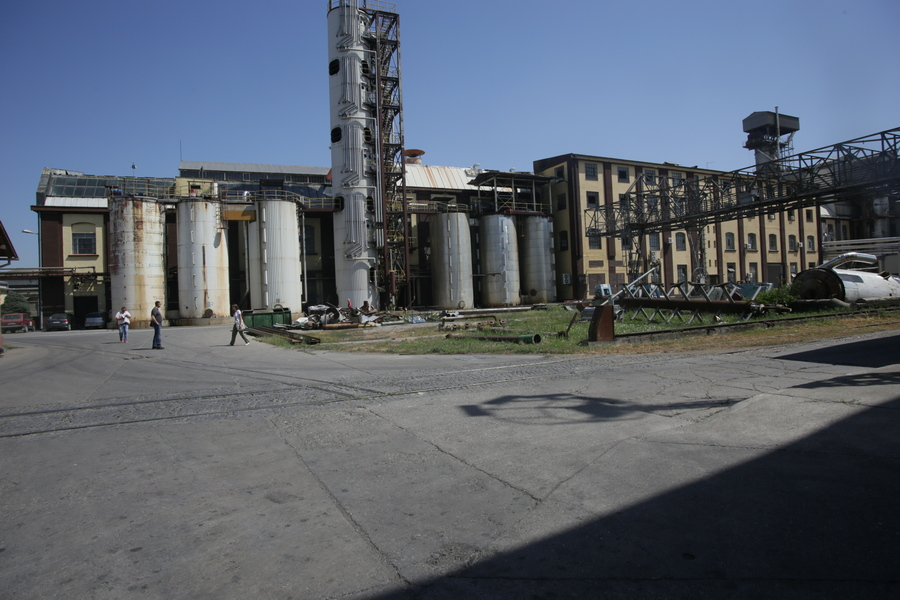 Factory Crvenka Srpski (latinica): Fabrika secera Crvenka